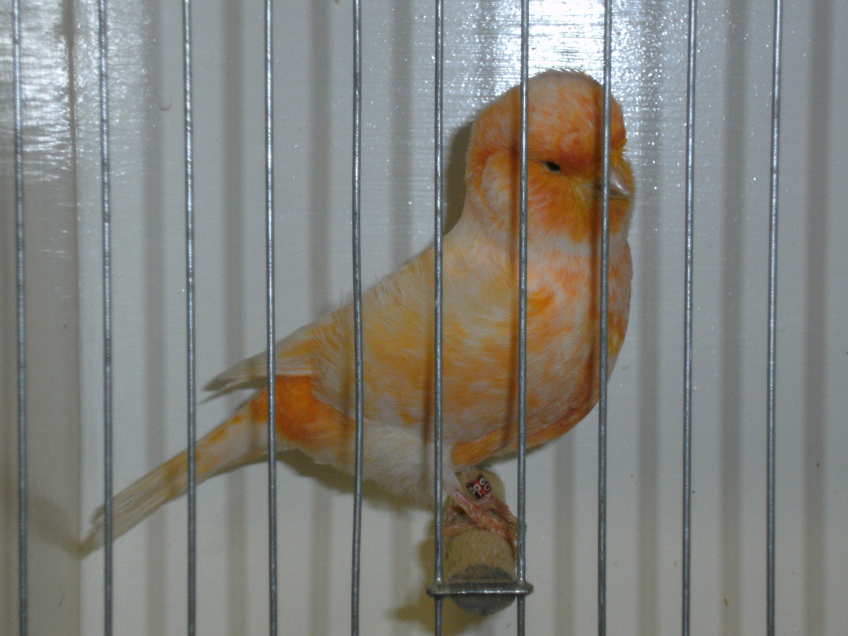 Grand Champion Australian Plainhead canary at the 38th National Canary Exhibition in Melbourne 2013.